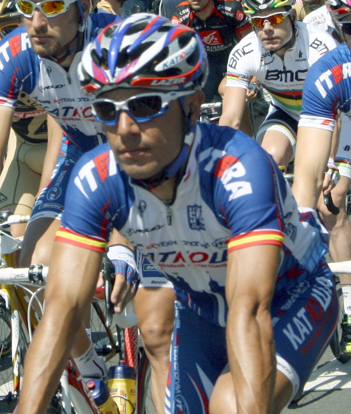 Joaquim Rodríguez at the start of the first stage of the 2010 Tour de France in Rotterdam